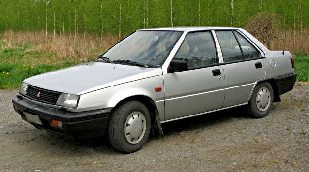 Mitsubishi Lancer 1.8D -87, fourth generation (Jan-Erik Skata)